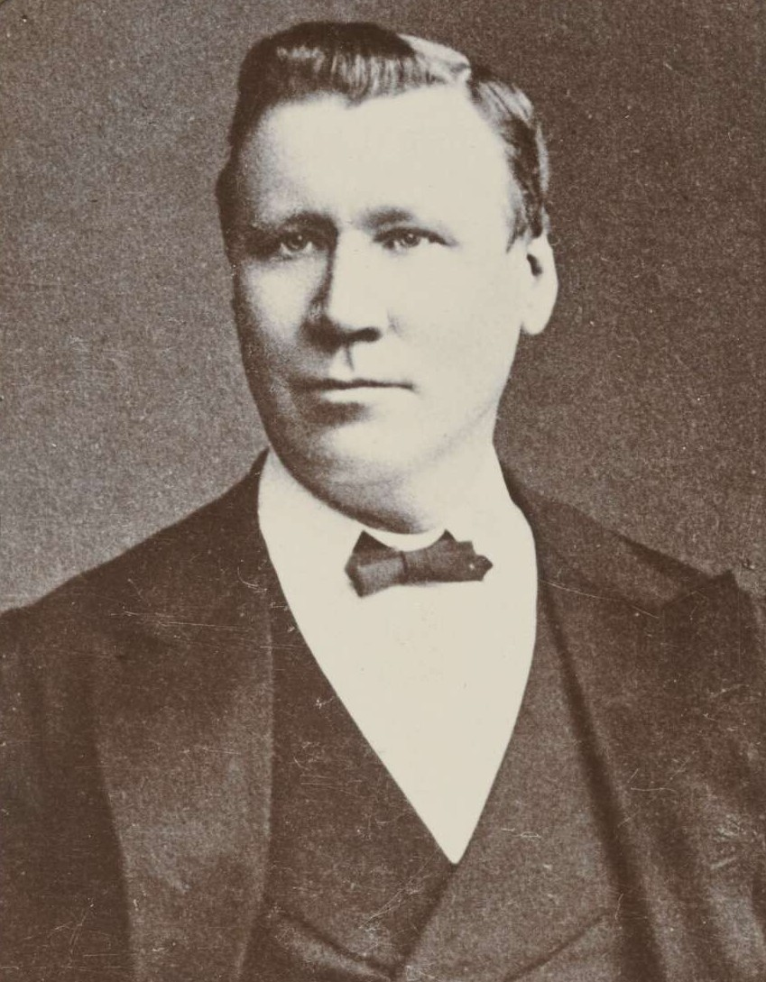 Photograph of John Downer, Premier of South Australia and Australian Senator.